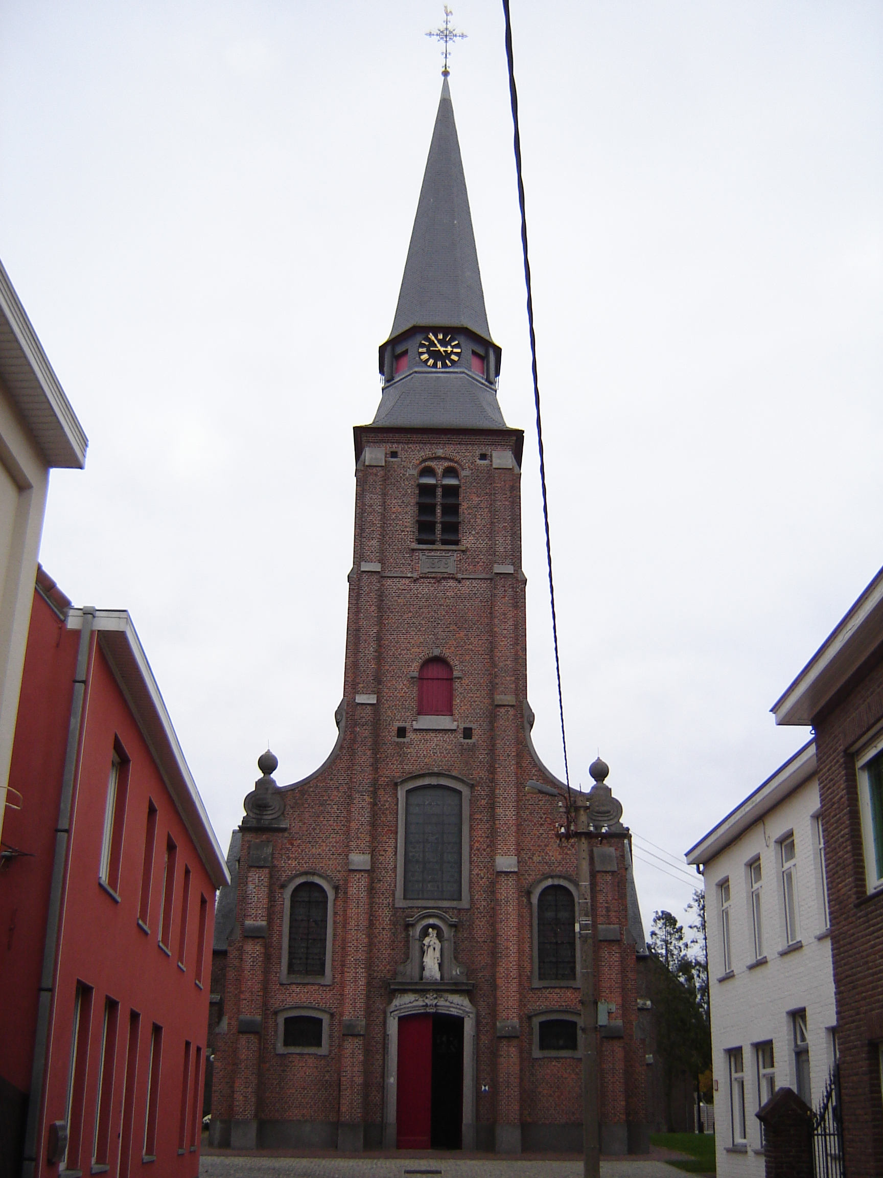 Church of Saint Blaise in Waardamme. Waardamme, Oostkamp, West Flanders, Belgium